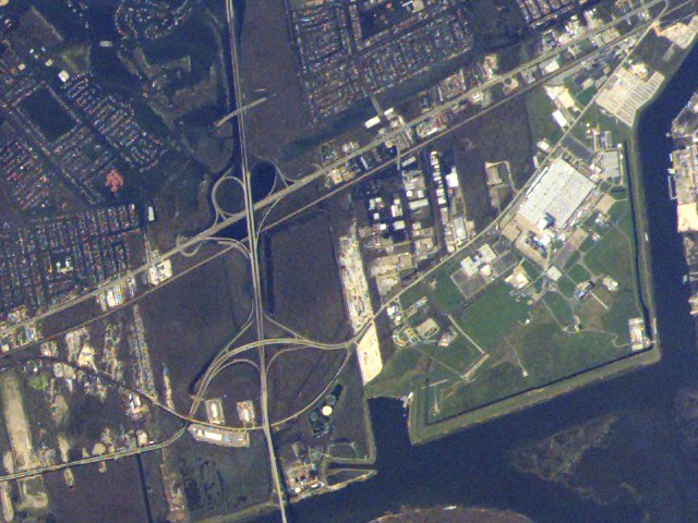 NASA Michoud Assembly Facility is located at right center of this image acquired from the International Space Station on September 8, 2005, of areas damaged by Hurricane Katrina. While the facility itself is largely dry, the adjacent neighborhoods are extensively flooded (dark greenish brown regions to the left and right of I-510, left of image center); portions of the highway cloverleaf are also inundated. Image is cropped from the parent frame, ISS011-E-12527 and is oriented with north to the top. The highway seen running vertically in the photo just left of center is Interstate 510. U.S. Highway 90 crosses it at center left of photo. At bottom, the "Green Bridge" continues the route over the MRGO / Intracoastal Canal. At bottom right is the "V" where the MRGO and Intracoastal canals join; the Intracoastal continues east off to the right while the MRGO heads down to the Gulf at bottom.